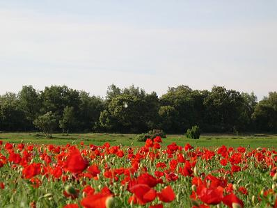 Foto del monte de Villaverde del Monte, Burgos en primavera.